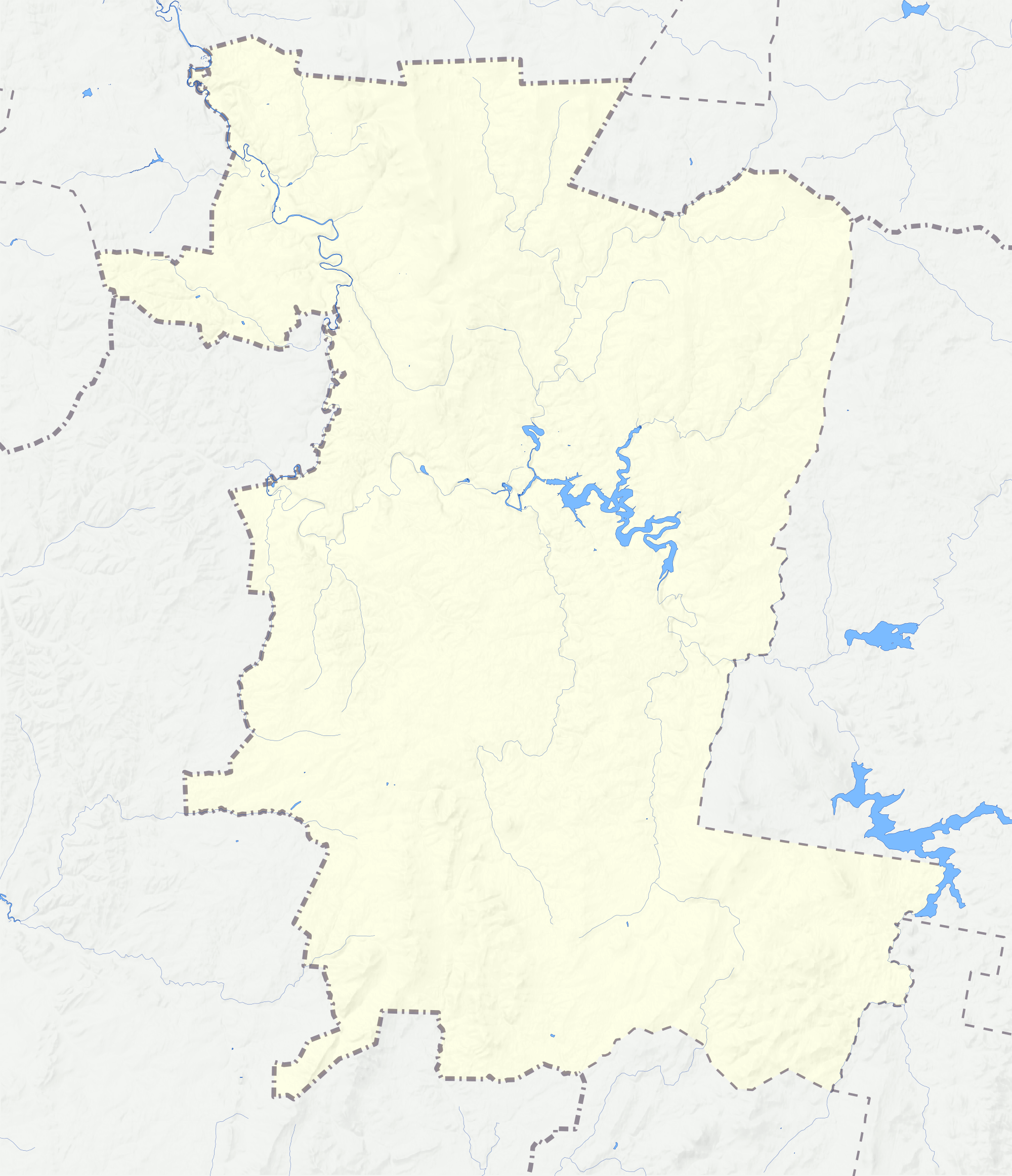 Map — boundaries and waterbodies of Nyazepetrovsky rayon (district), Chelyabinsk oblast (region), Russia Relief data — SRTM. Waterbodies and boundaries — OpenStreetMap. Area — 58.9, 55.53, 60.2, 56.38 (55,53—56,38° N, 58.9—60,2° E) Rendered with — Maperitive, Inkscape.